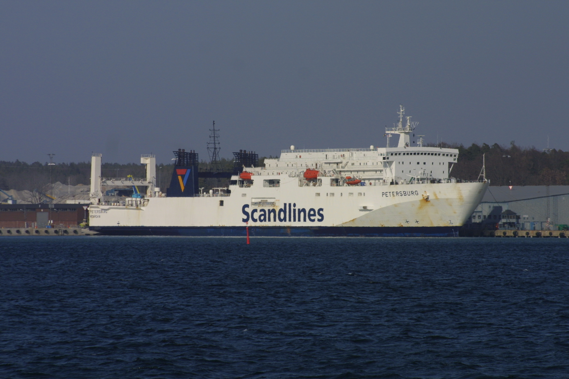 Petersburg in Karlshamn, Sweden 2003-04-19